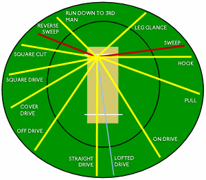 Full size version: File:Cricket shots.png Reworking of GFDL image: :image:shots.jpg